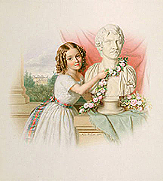 Kindliche Huldigung für König Ludwig I. von Bayern.